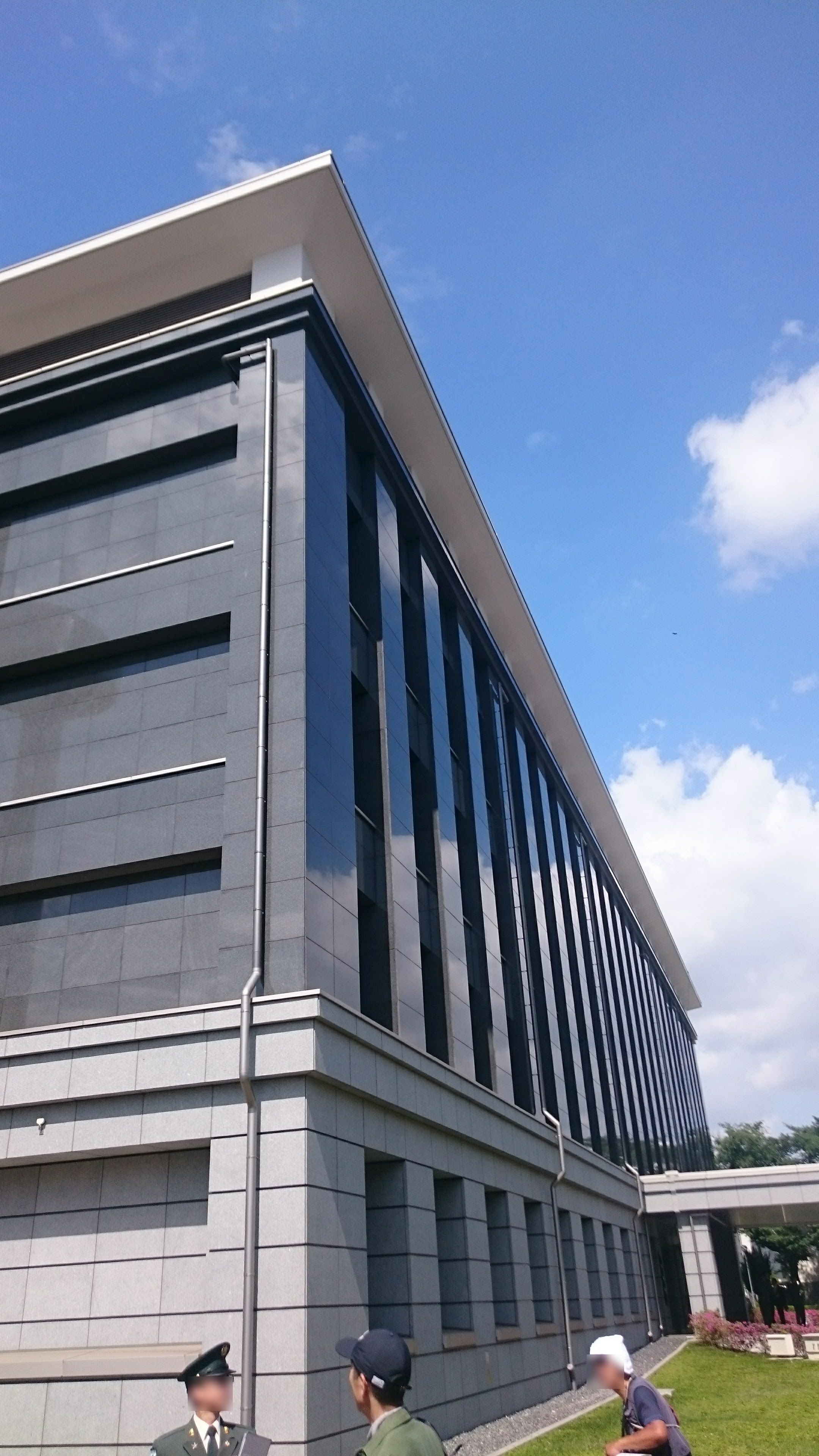 Headquarters building of the Japan Ground Self-Defense Force 1st Division at JGSDF Camp Nerima in Tokyo.